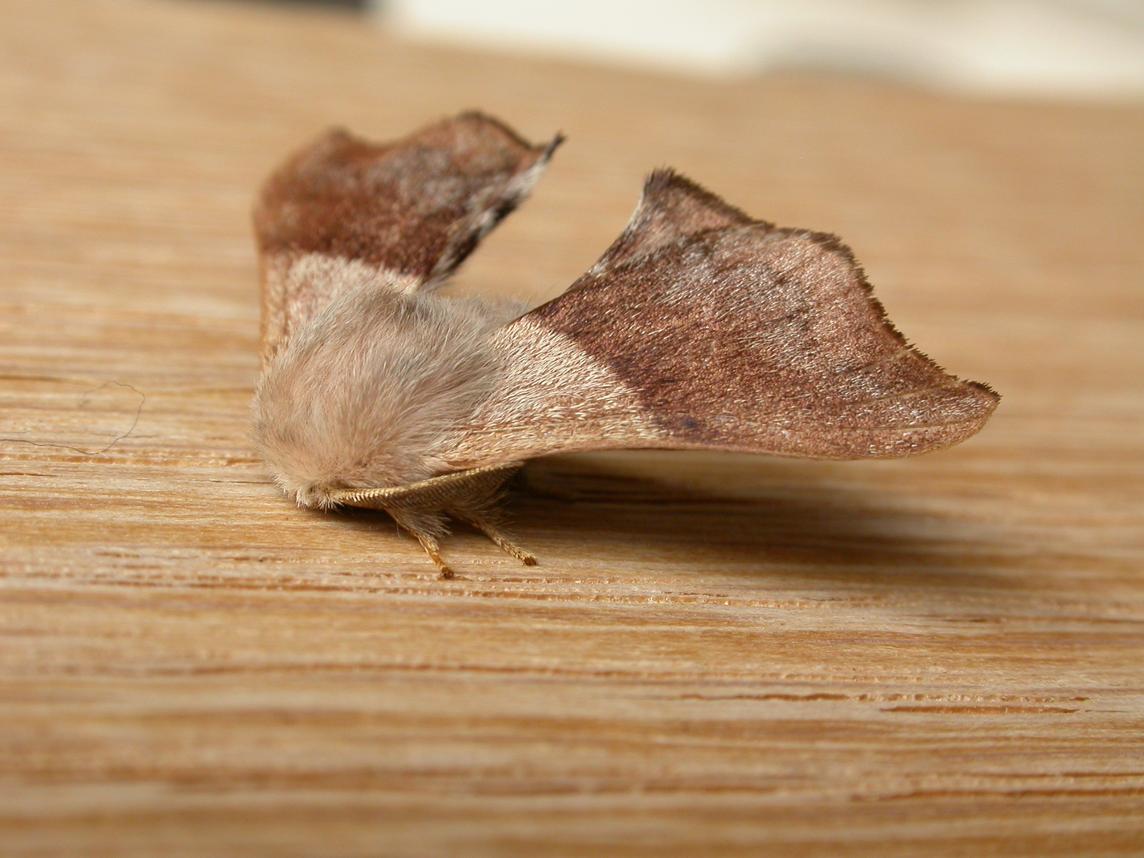 Panacela lewinae (Lewin, 1805), male, to MV light, Blackheath, NSW, 23/24 January 2011